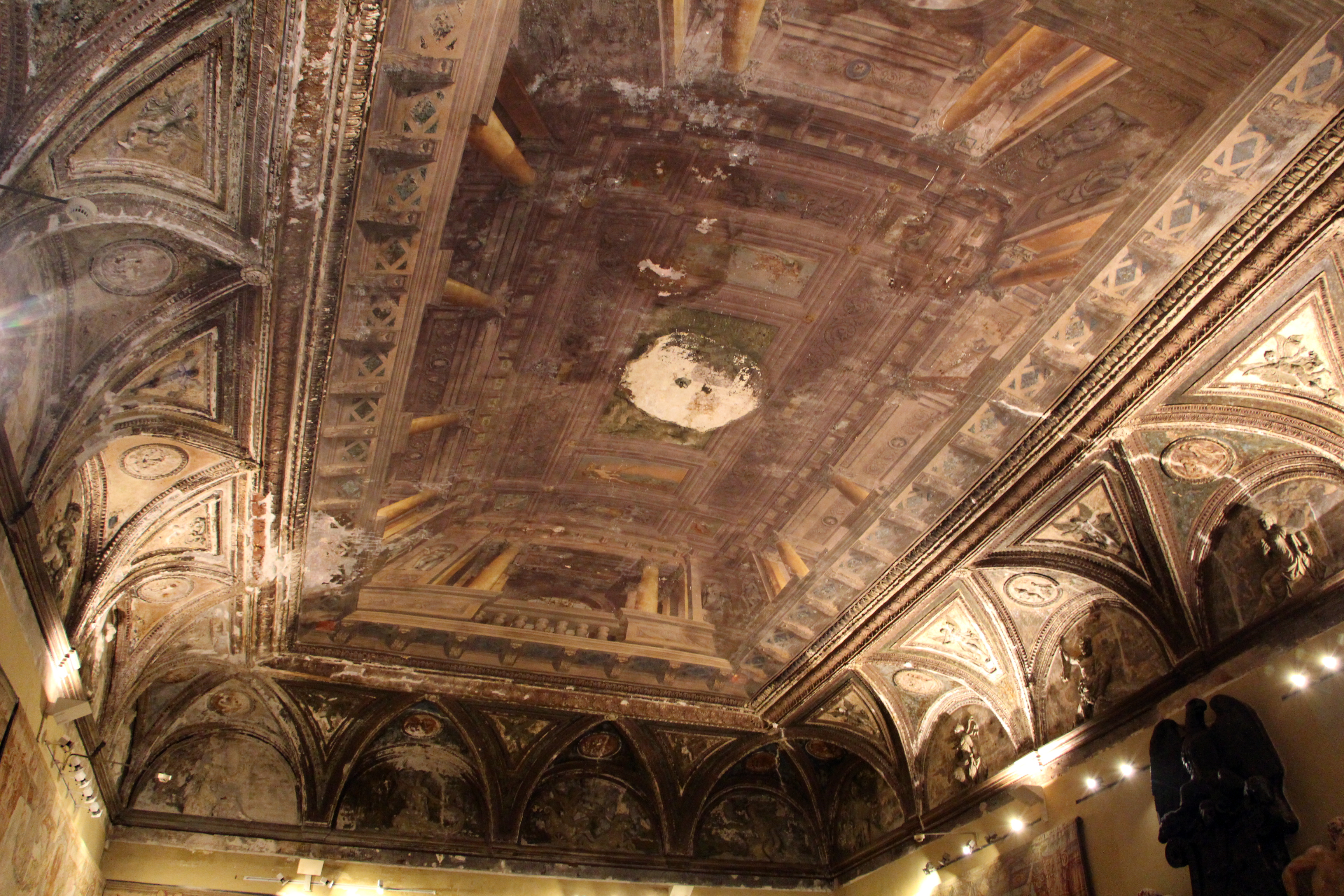 Interior of the Villa del Principe (Genoa) - Hall of the Shipwreck